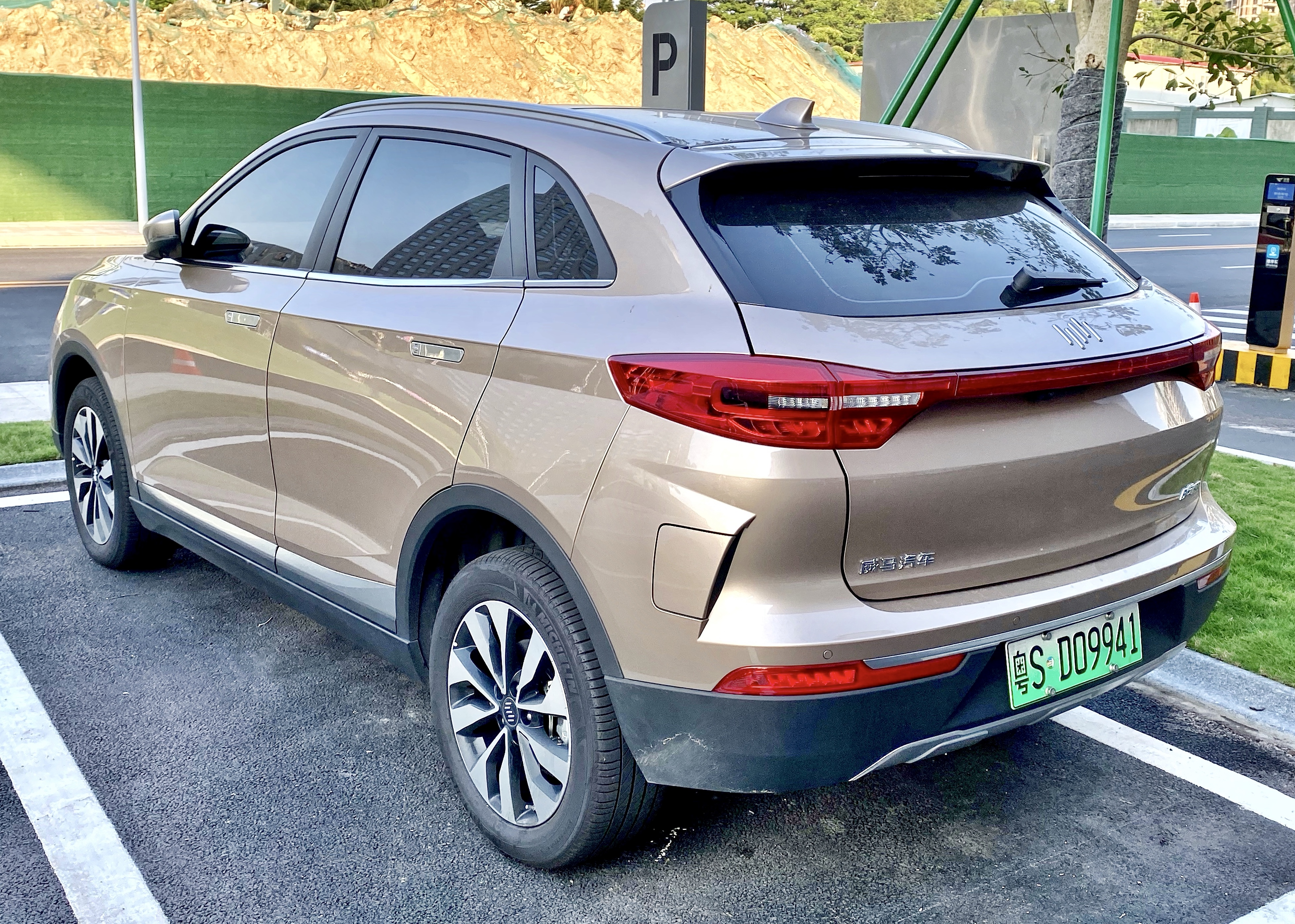 A 2019 Weltmeister EX5 photographed in Dongguan, Guangdong province, China. 中文（中国大陆）: 一辆2019年的威马EX5，拍摄于中国广东省东莞市。